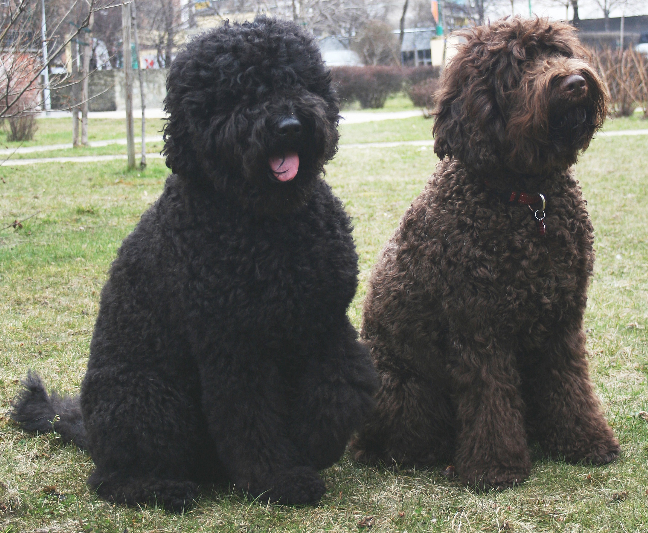 Barbet during the international dog show in Katowice - female from husbandry "z Kędziorkowa", the owner and breeder - Anna Stępińska, Poland.